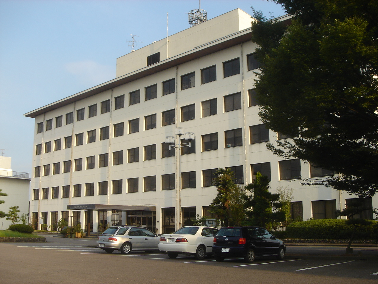 Kamo Sogo Chosya(Prefectural goverment office) in Ogaki(可茂総合庁舎),Minokamo,Gifu,Japan(岐阜県美濃加茂市)で撮影。国道21号沿線にある。